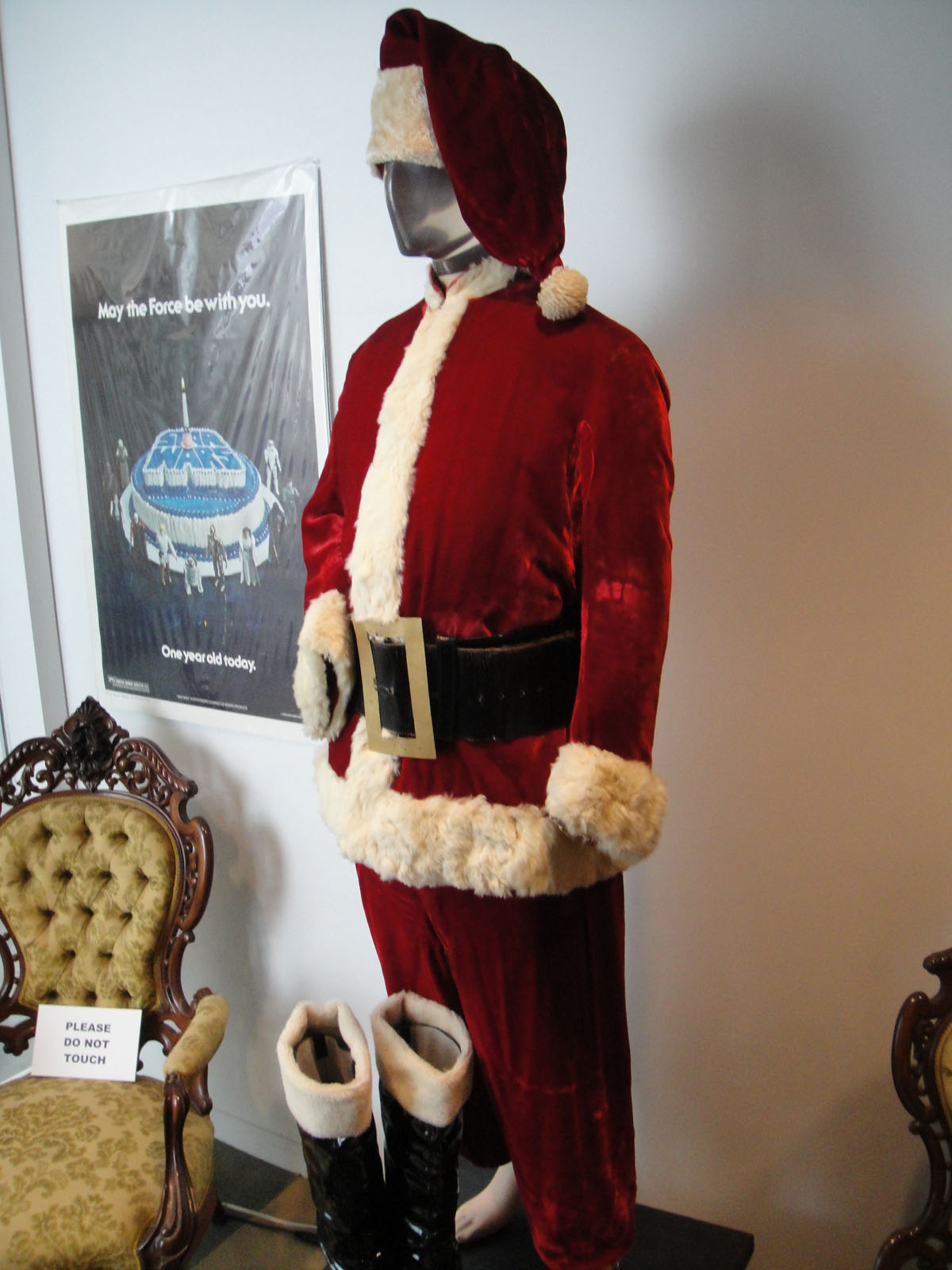 Edmund Gwen "Kris Kringle" Santa Claus outfit from "Miracle on 34th Street" at the Debbie Reynolds Auction Breaks Up Historic Hollywood Collection (The Paley Center for Media in Beverly Hills, Los Angeles, CA, USA).